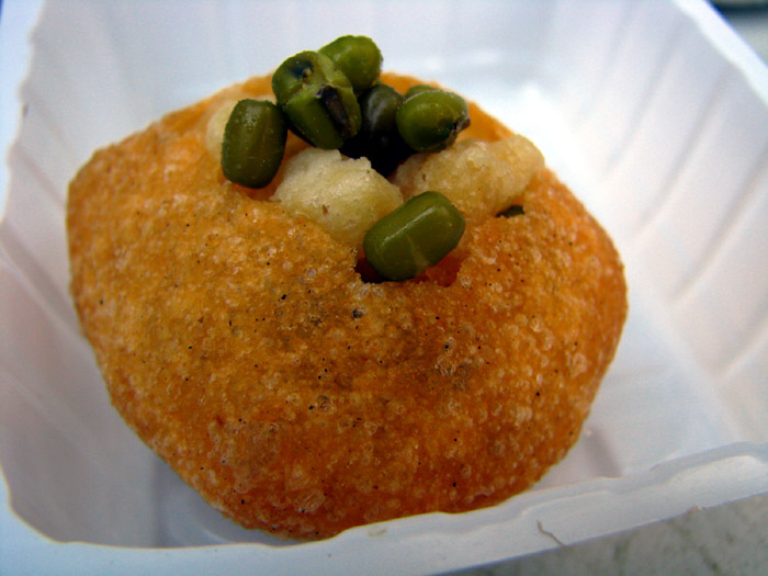 Pani Puri or Fuchka in Indian or Bangladesh cuisine Spicy street food Cheers and happy eating! Kirti